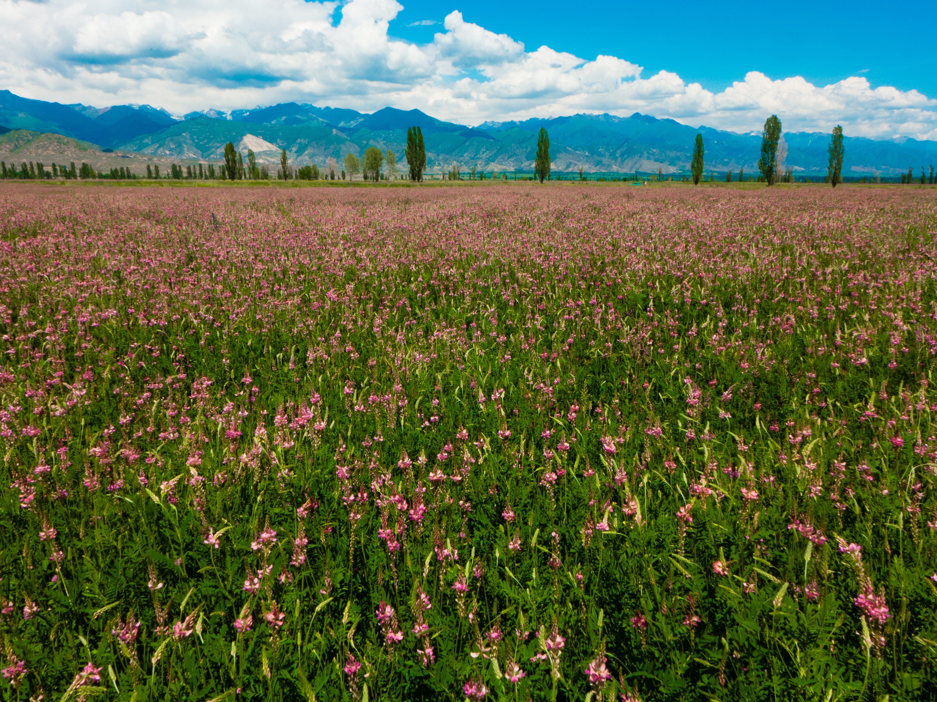 Field of Common Sainfoin (Onobrychis viciifolia) in the vicinity of Lake Issyk Kul, Kyrgyzstan